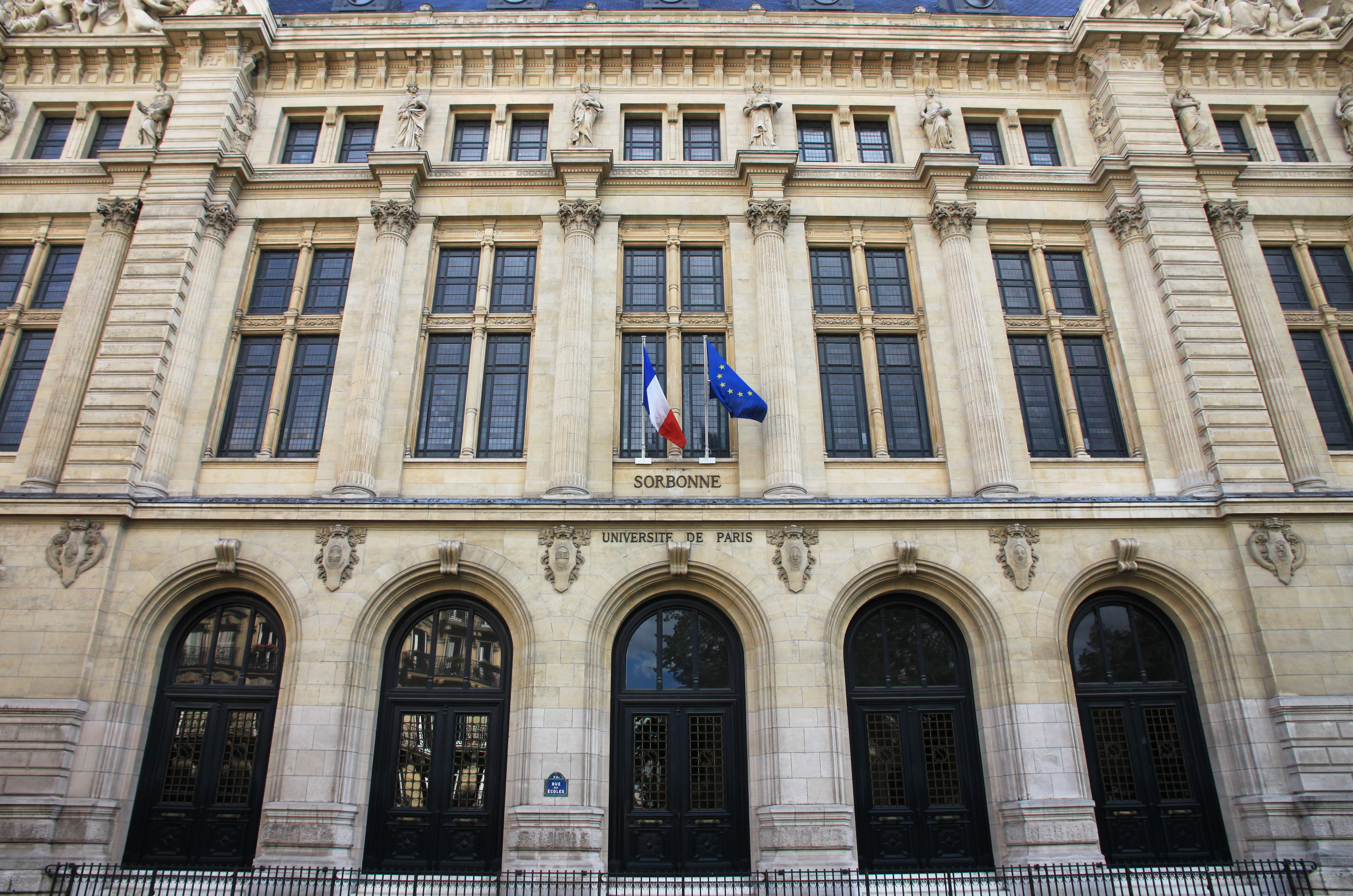 Entrance of the main building of the "new" Sorbonne university, built in by Henri-Paul Nénot, rue des Écoles, Paris.